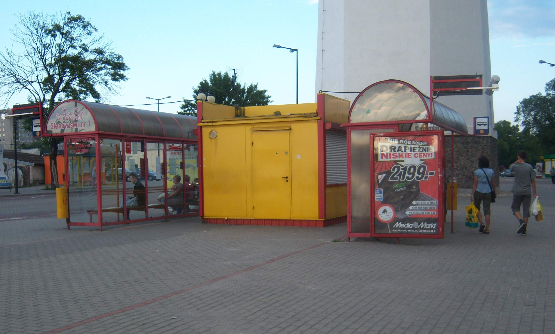 MZK Konin bus stops near railway station in Konin (Kolejowa Street)